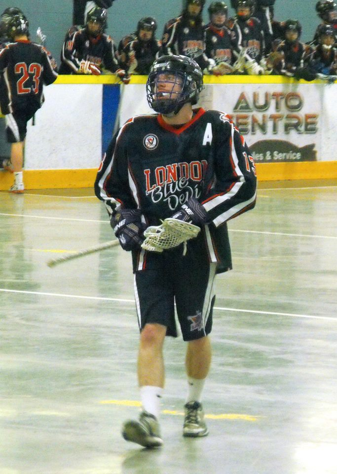 These images of Ontario Junior B Lacrosse Action action during the 2014 season are taken by Devan Mighton.